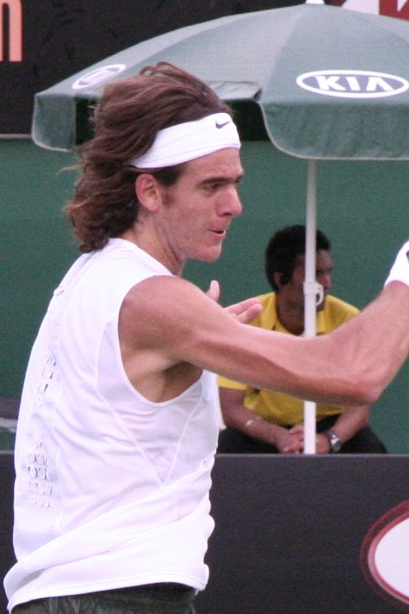 Juan Martin Del Potro at the 2007 Australian Open, during his second round match.